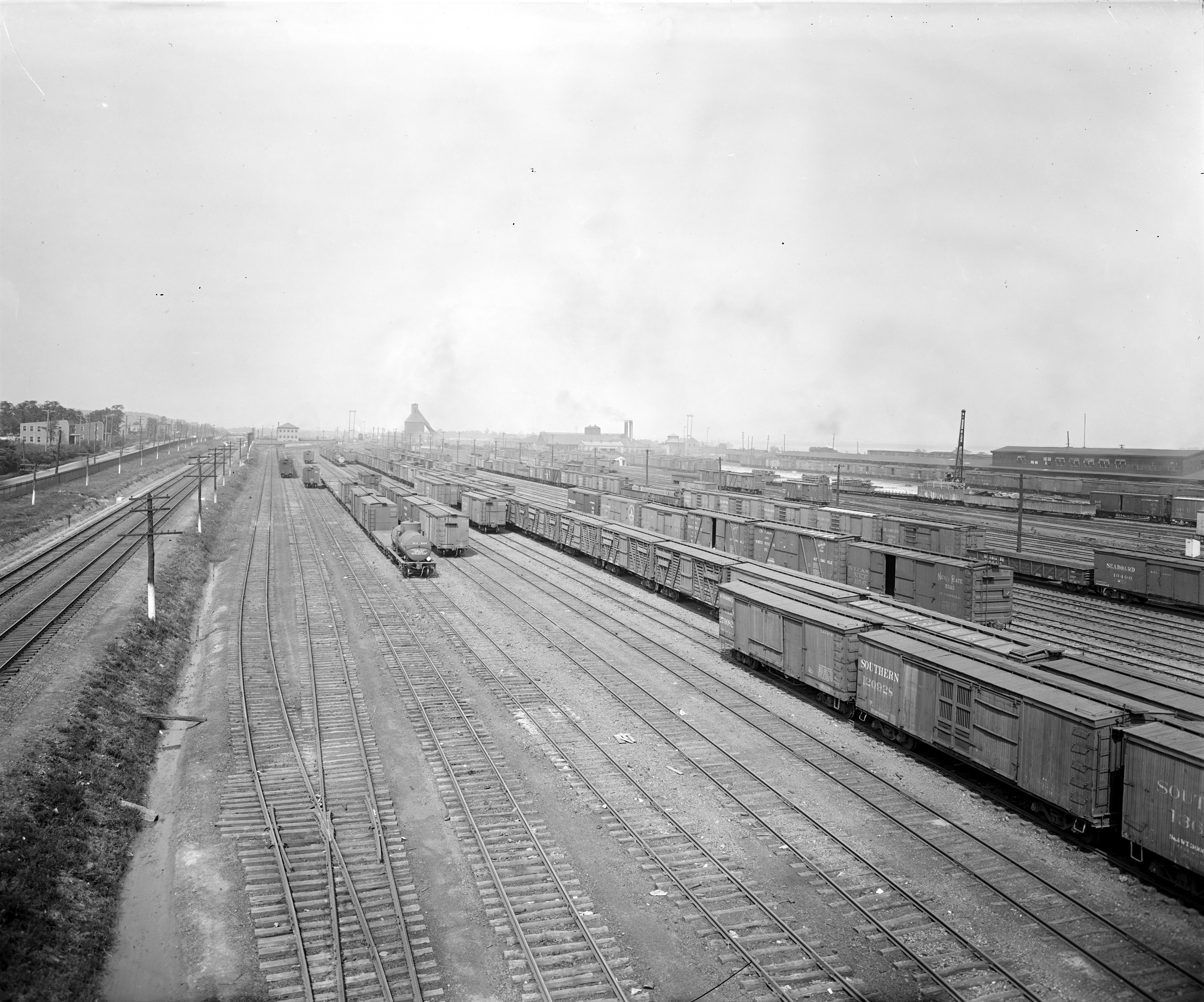 View of Potomac Yard in Arlington County and Alexandria, Virginia. The yard opened in 1906 and closed in 1989. Photo cropped.